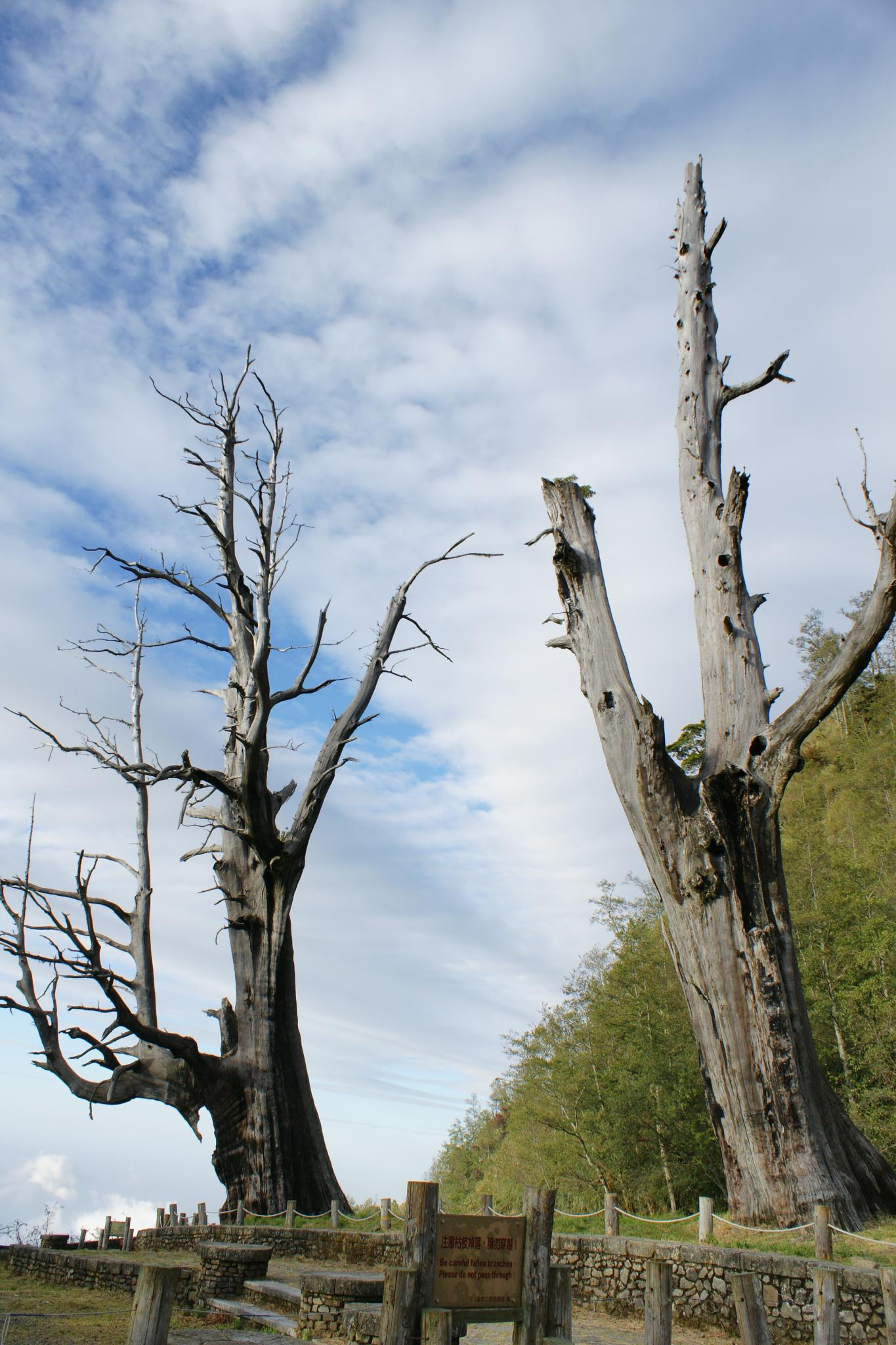 These two red cypress trees are the remains of the forest fire in 1963, which resemble a couple standing proudly by the road. Infrastructures available include parking lot and mobile lavatories.